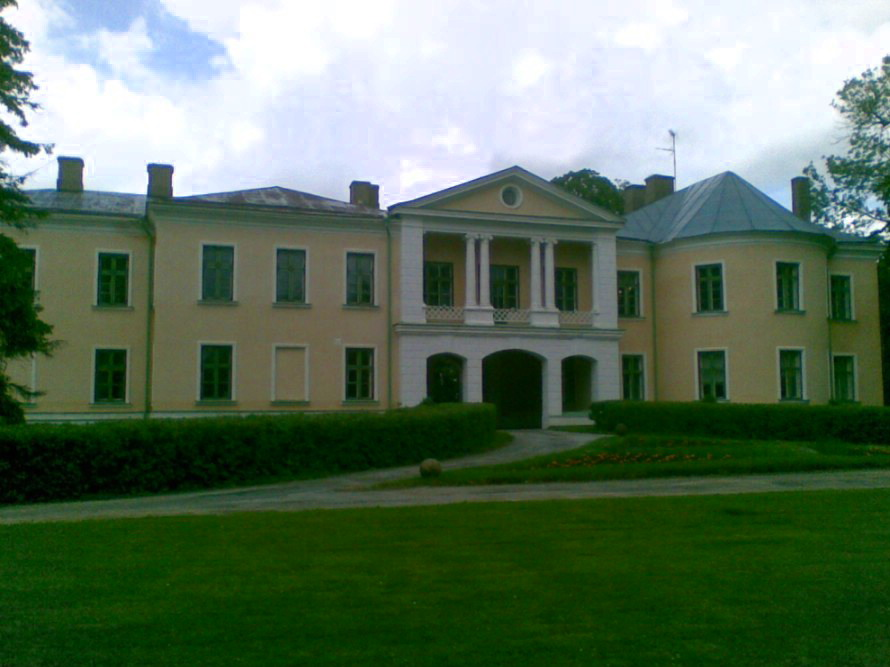 Mõdriku manorhouse.